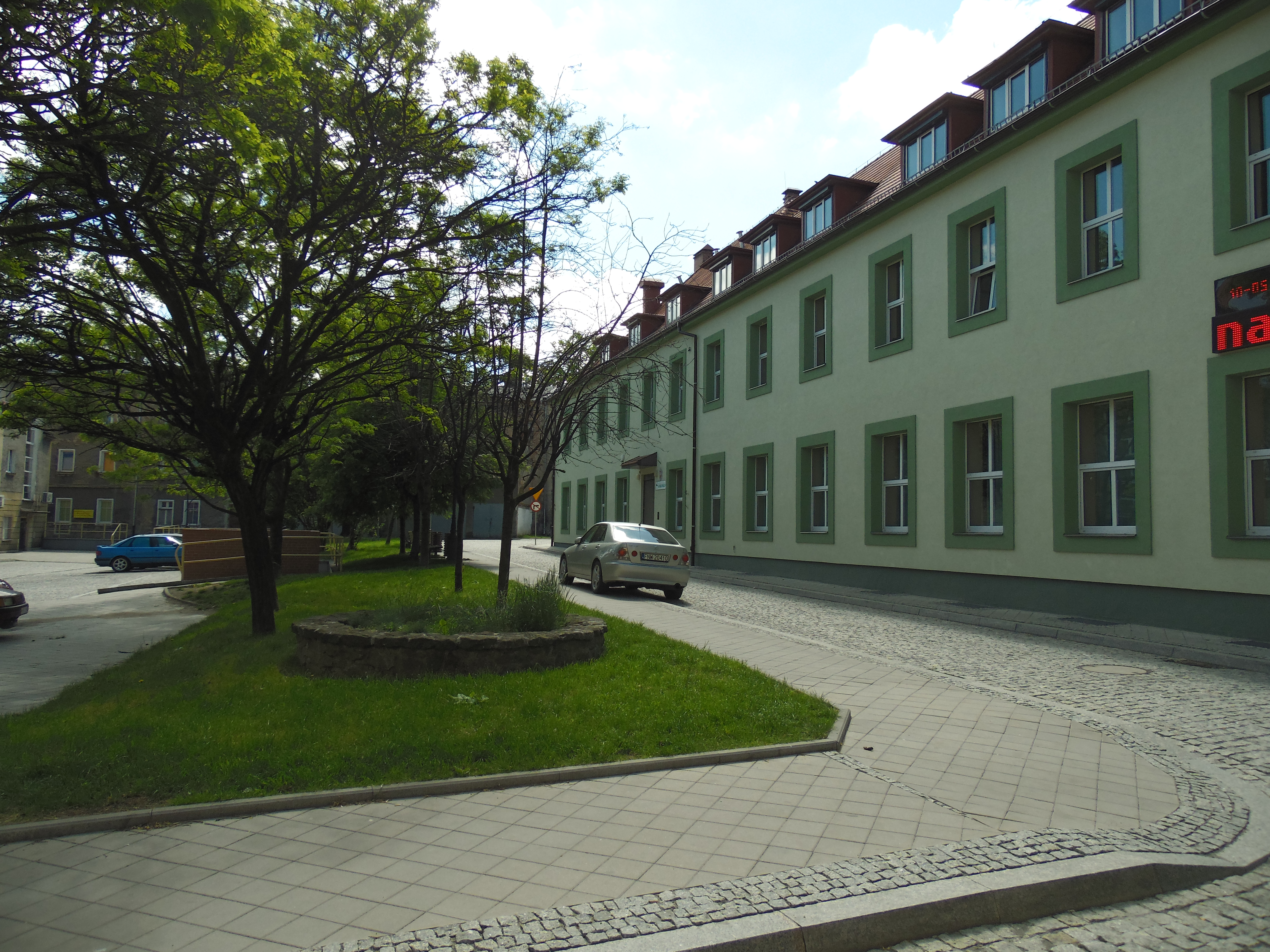 Ciasna Street in Prudnik